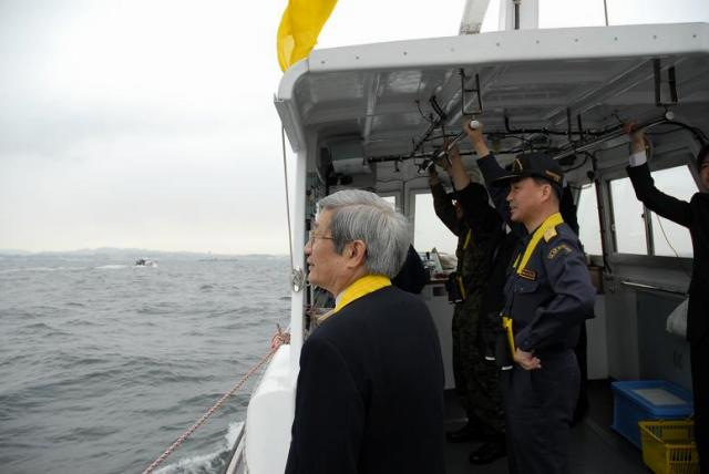 Makoto Iokibe, President of the National Defense Academy, observed the Cutter Race of the National Defense Academy in Tōkyō Bay on April 25, 2008.